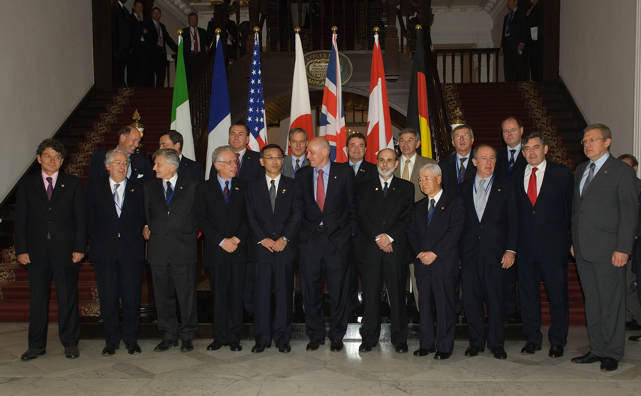 IMF Managing Director Rodrigo de Rato, 3rd from R, poses with the G-7 Finance Ministers and Central Bank Governors after their meeting at The Raffles Hotel in Singapore, September 16, 2006. IMF Managing Director Rodrigo de Rato, 3rd from R, poses with the G-7 Finance Ministers and Central Bank Governors after their meeting at The Raffles Hotel in Singapore, September 16, 2006.